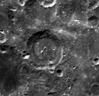 Boyle crater